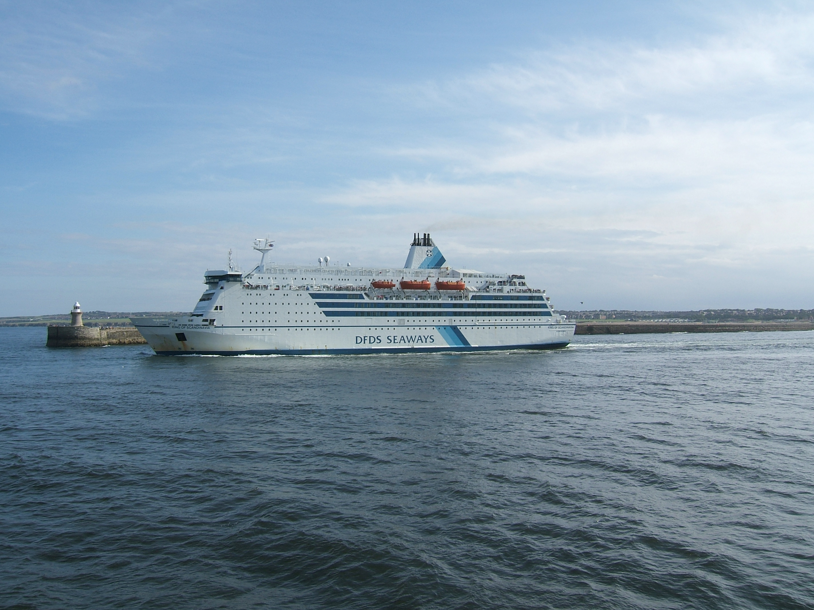 DFDS passenger ferry MS 'King of Scandinavia' leaving the Tyne, UK for IJmuiden, Netherlands. Viewed from Tyne north pier across to South Shields.